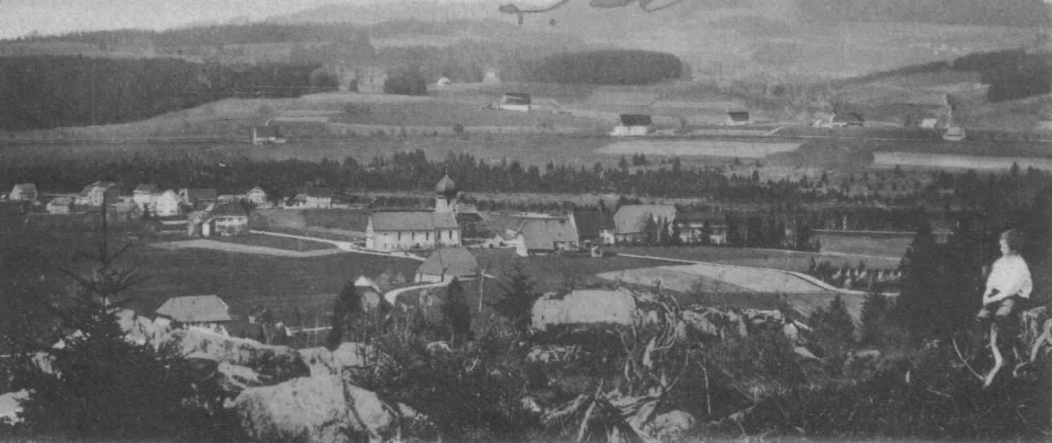 Hinterzarten around 1910